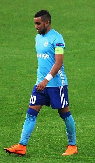 Dimitri Payet with Olympique de Marseille in 2018.